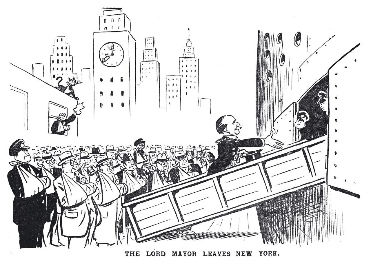 Cartoon of Alfie Byrne departing New York from April 1935 published in Dublin Opinion Magazine from April, 1935. Image from the Alfie Byrne Collection courtesy of the Little Museum of Dublin.